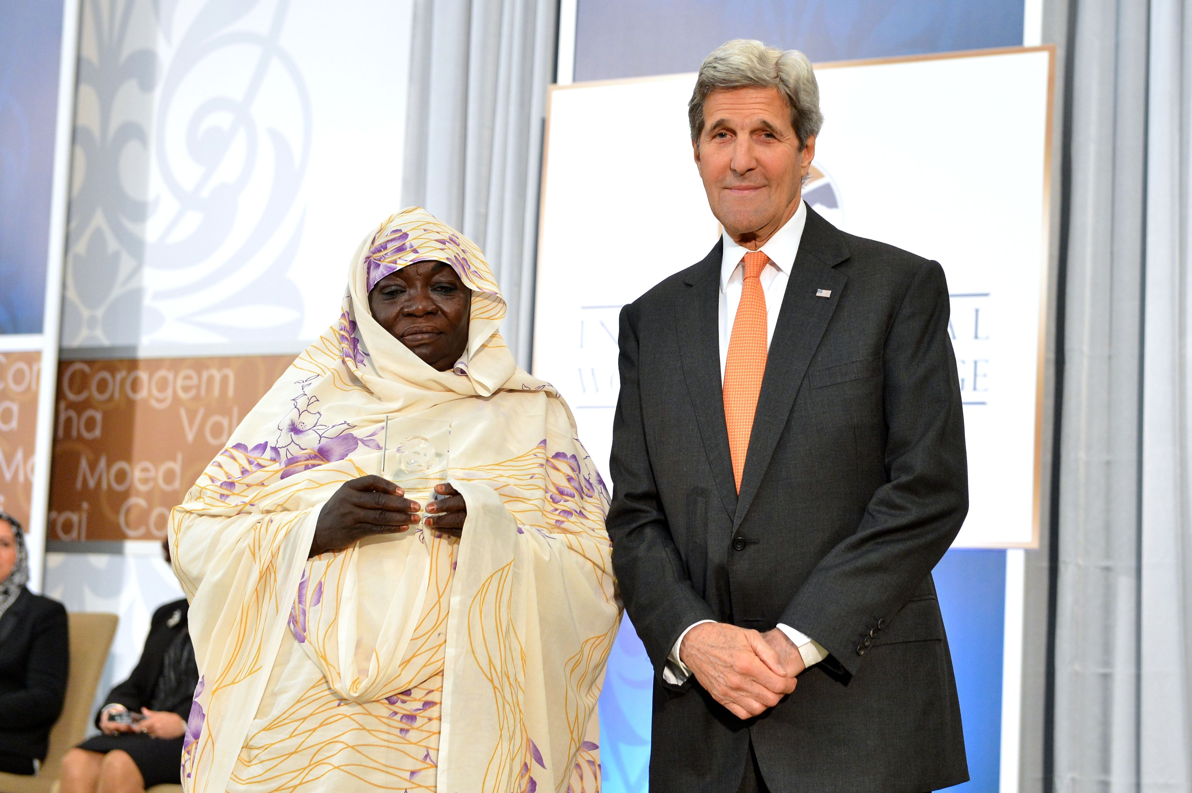 U.S. Secretary of State John Kerry presents the 2016 International Women of Courage Award to Awadeya Mahmoud of Sudan, Founder and Chair of the Women’s Food and Tea Sellers’ Cooperative and the Women’s Multi-Purpose Cooperative for Khartoum State, at the U.S. Department of State in Washington, D.C., on March 29, 2016. [State Department photo/ Public Domain]